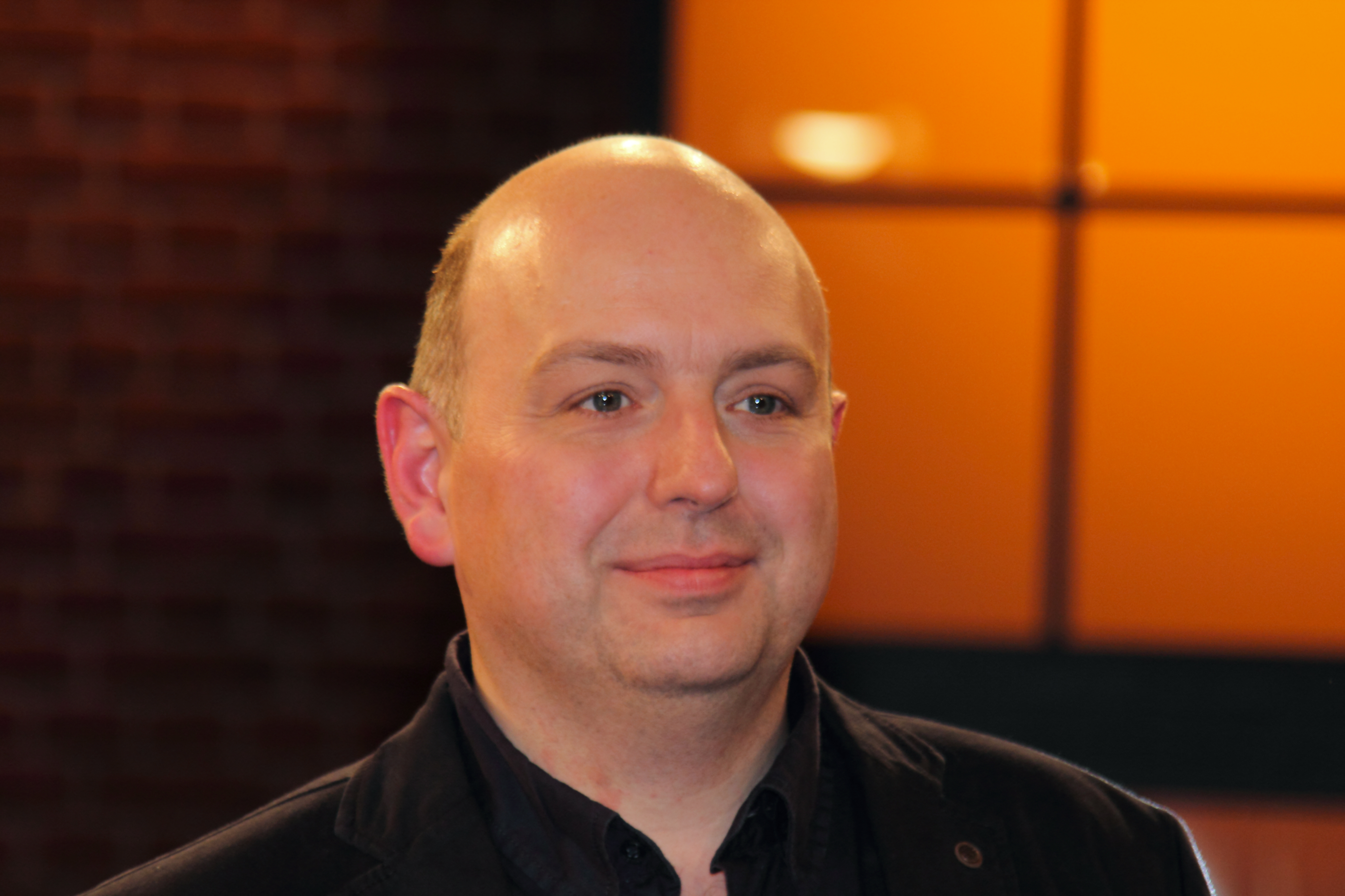 german comedian Frank Goosen